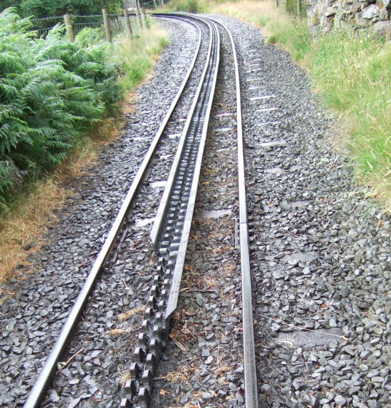 Snowdon Mountain Railway. Detailed view of the track with the centre rack rail, just above the former Waterfall Station. Note the start of the gripper rail. 24th July 2005 Photographer - A.M.Hurrell Camera - Fuji FinePix F10 Modified - Trimmed and file size reduced using Finepix Software